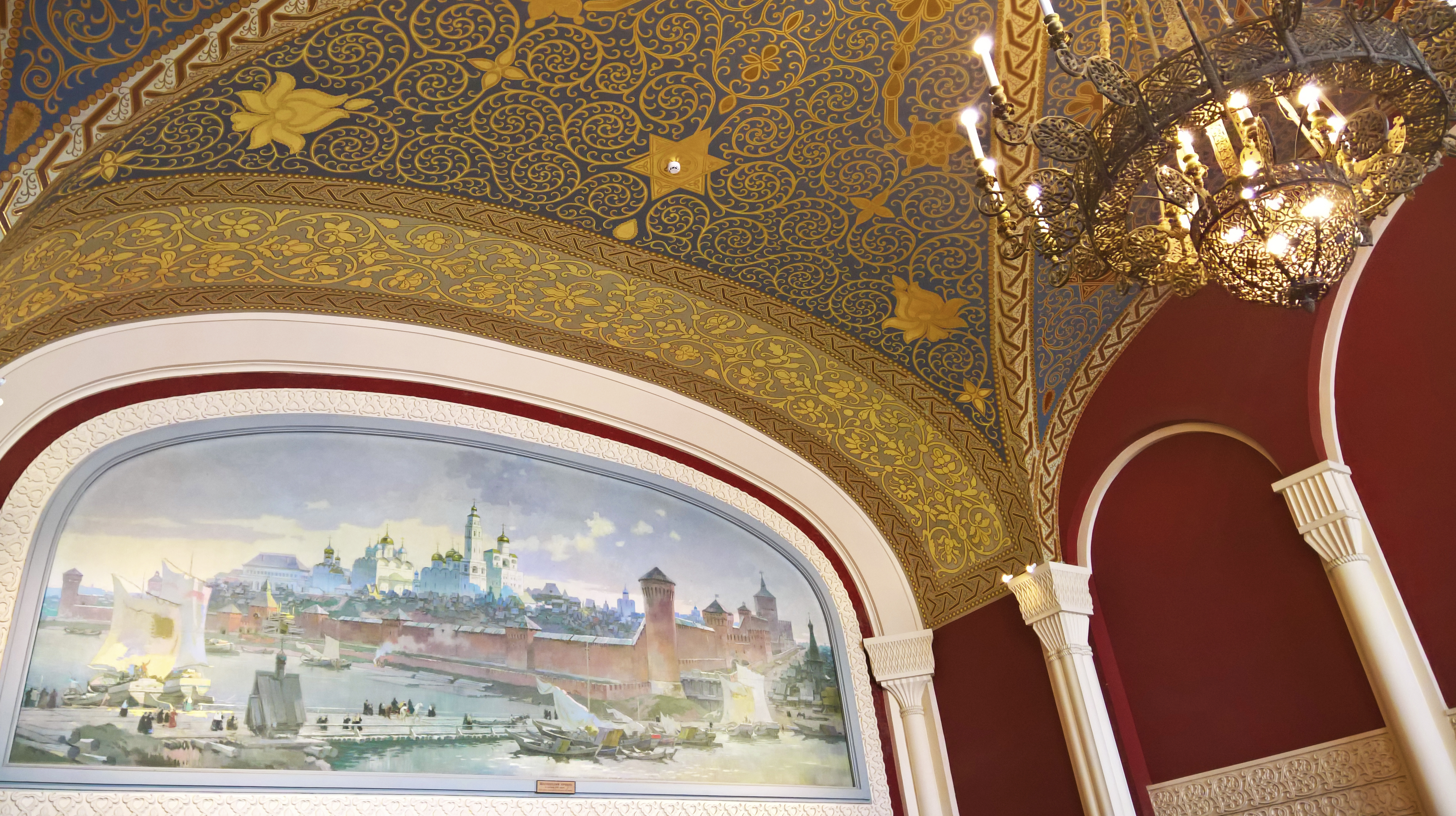 13-й зал экспозиции Государственного Исторического музея, оформление потолка и стен западной стороны. В левой части фотографии находится живописное панно "Московский Кремль в начале XV века".